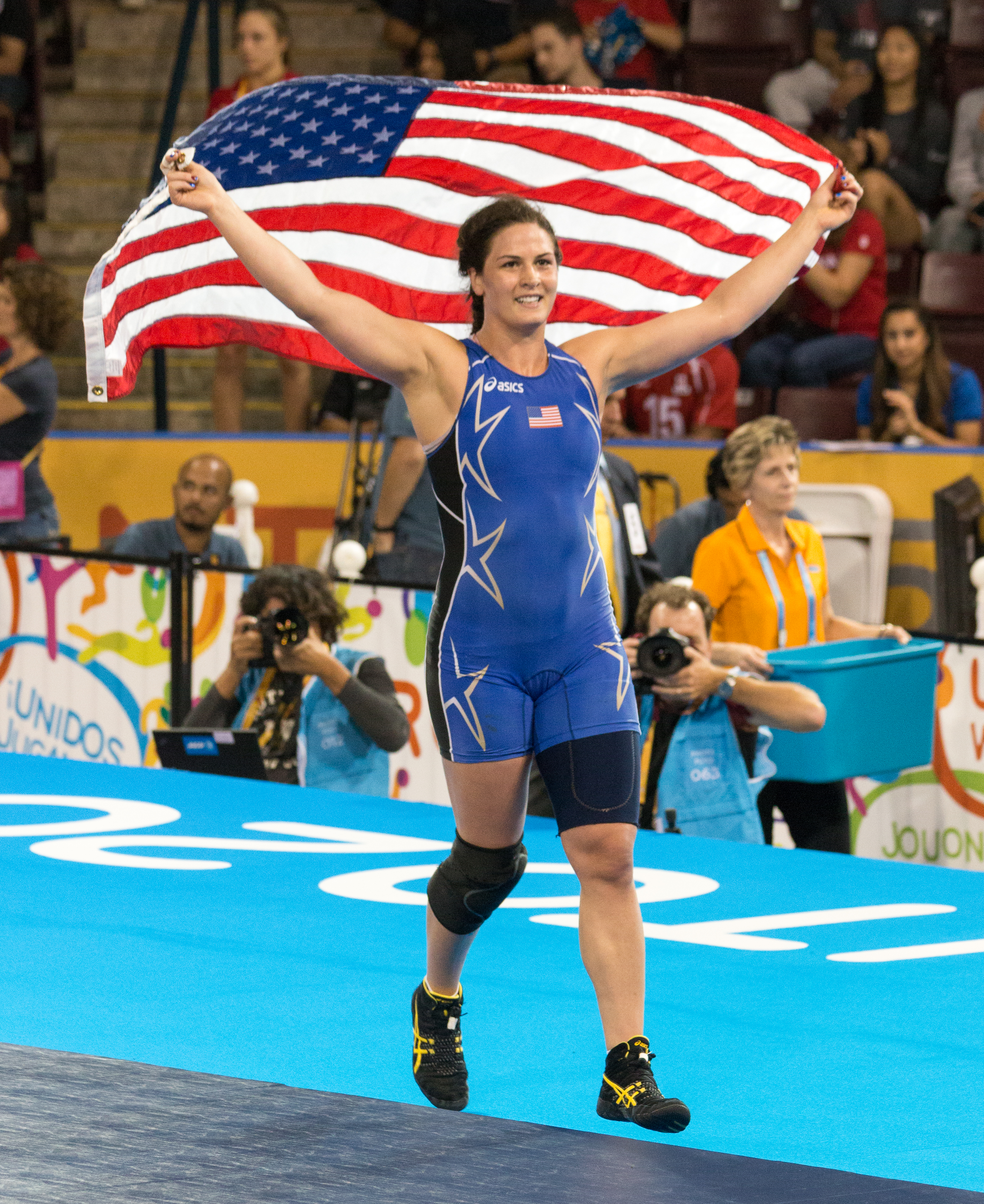 Adeline Gray celebrating her gold medal victory in freestyle wrestling at the 2015 Pan Am Games.